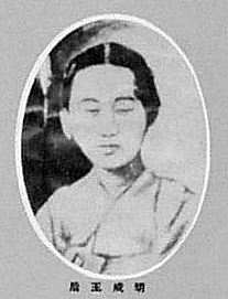 Purportedly a photo of Queen Min of Korea.